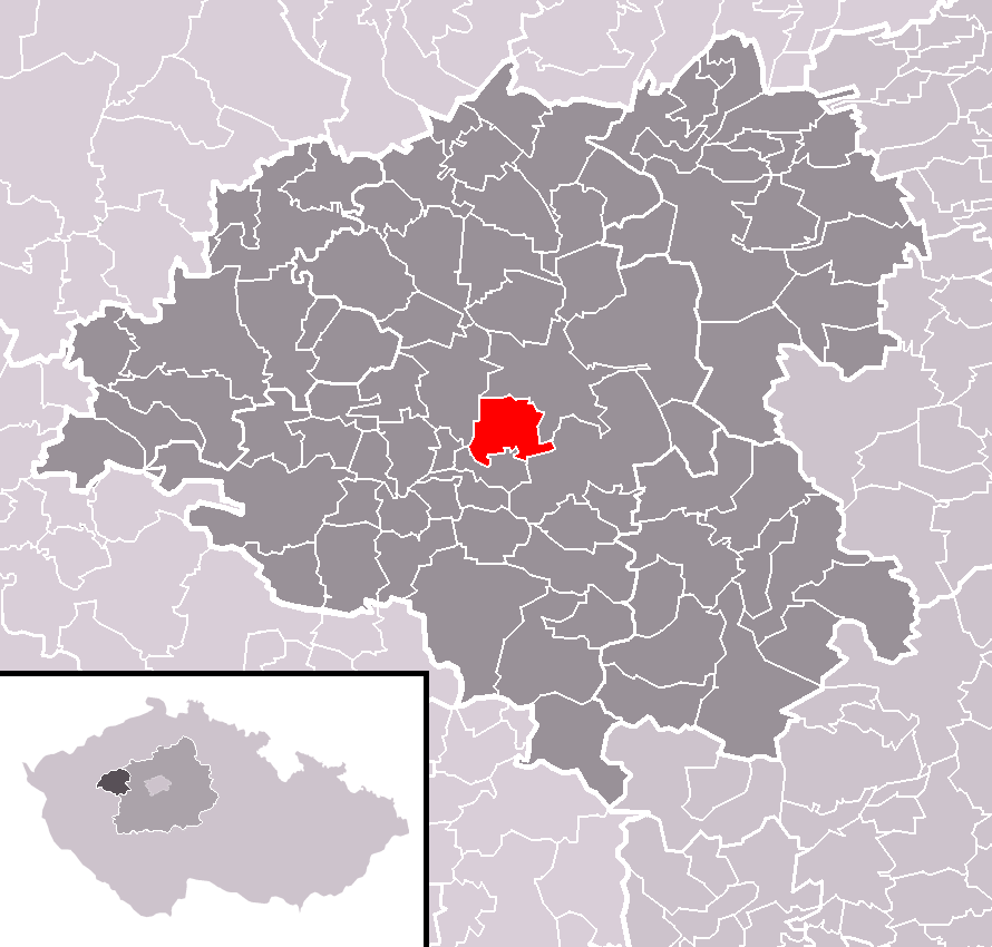 Location of Lubná municipality within Rakovník District and (identical) administrative area of Rakovník as a Municipality with Extended Competence.